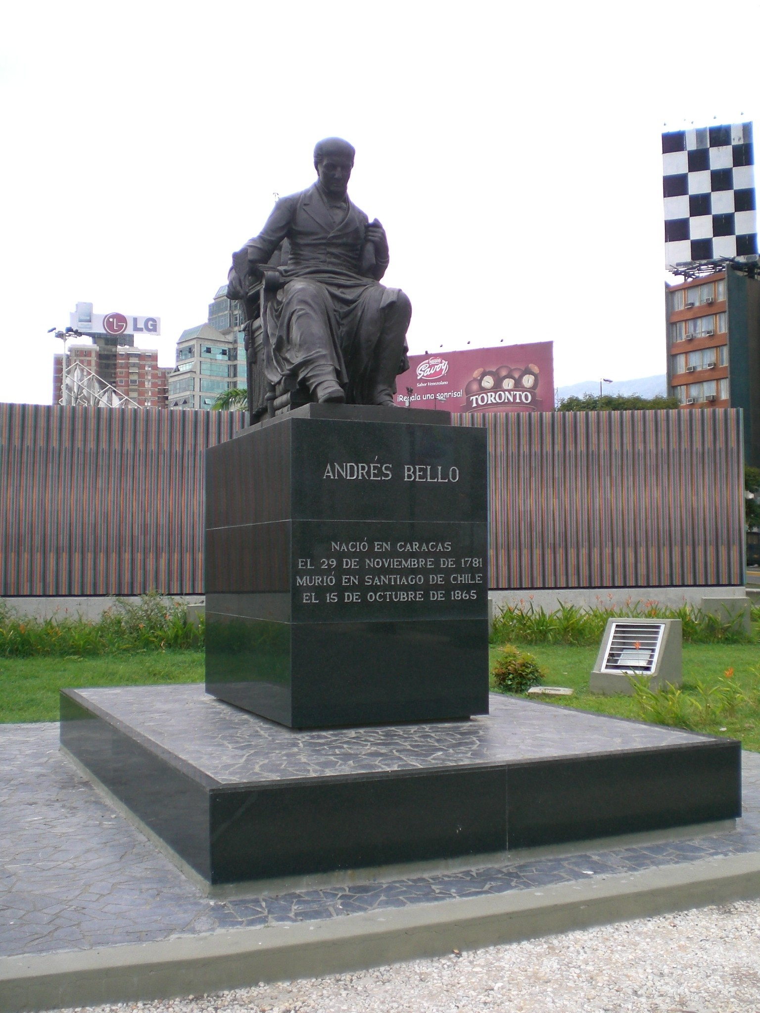 Statue of Andrés Bello, Plaza Venezuela, Caracas